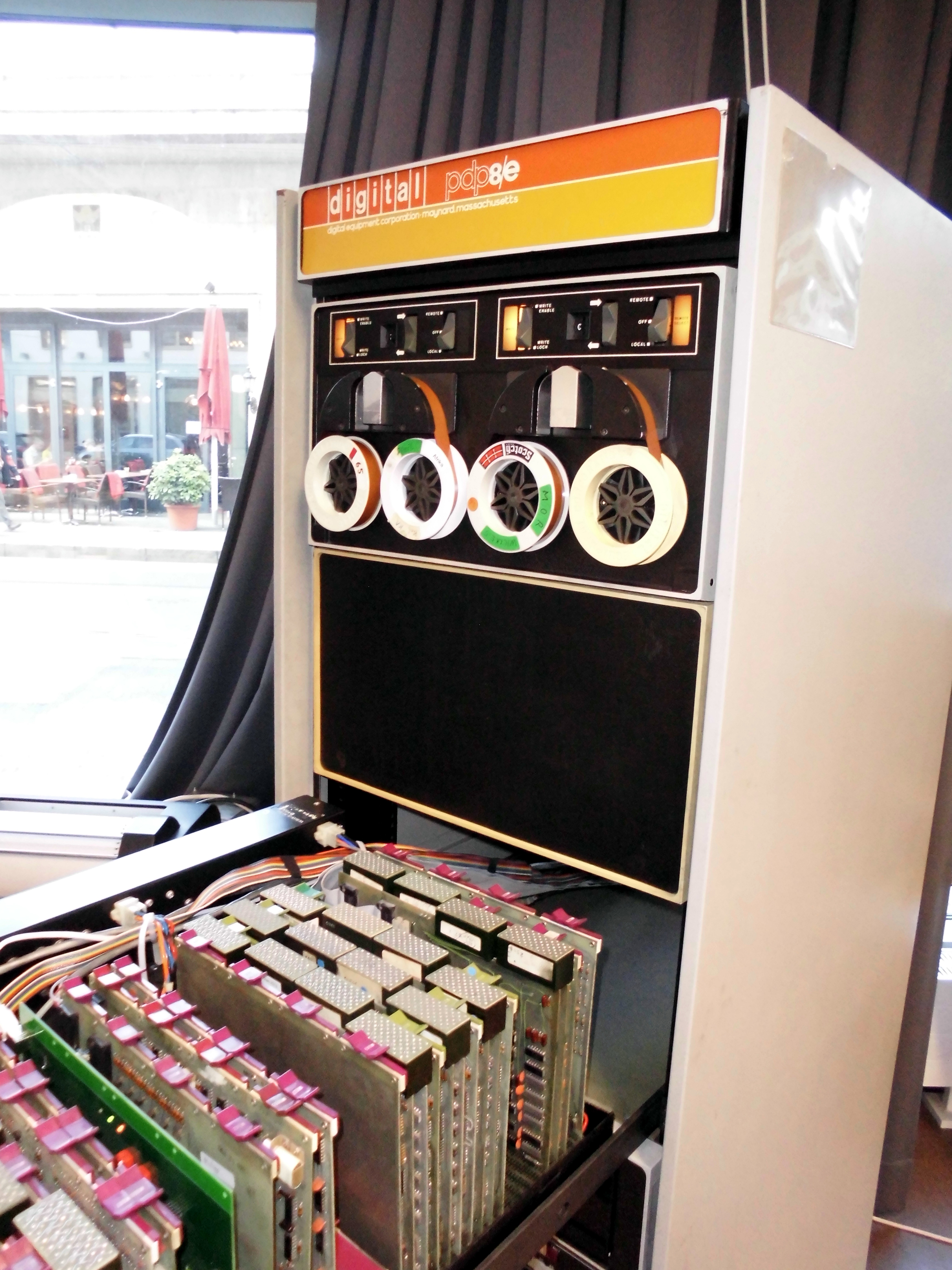 An open PDP-8/e shown at the Vintage Computing Festival 2014 in Berlin